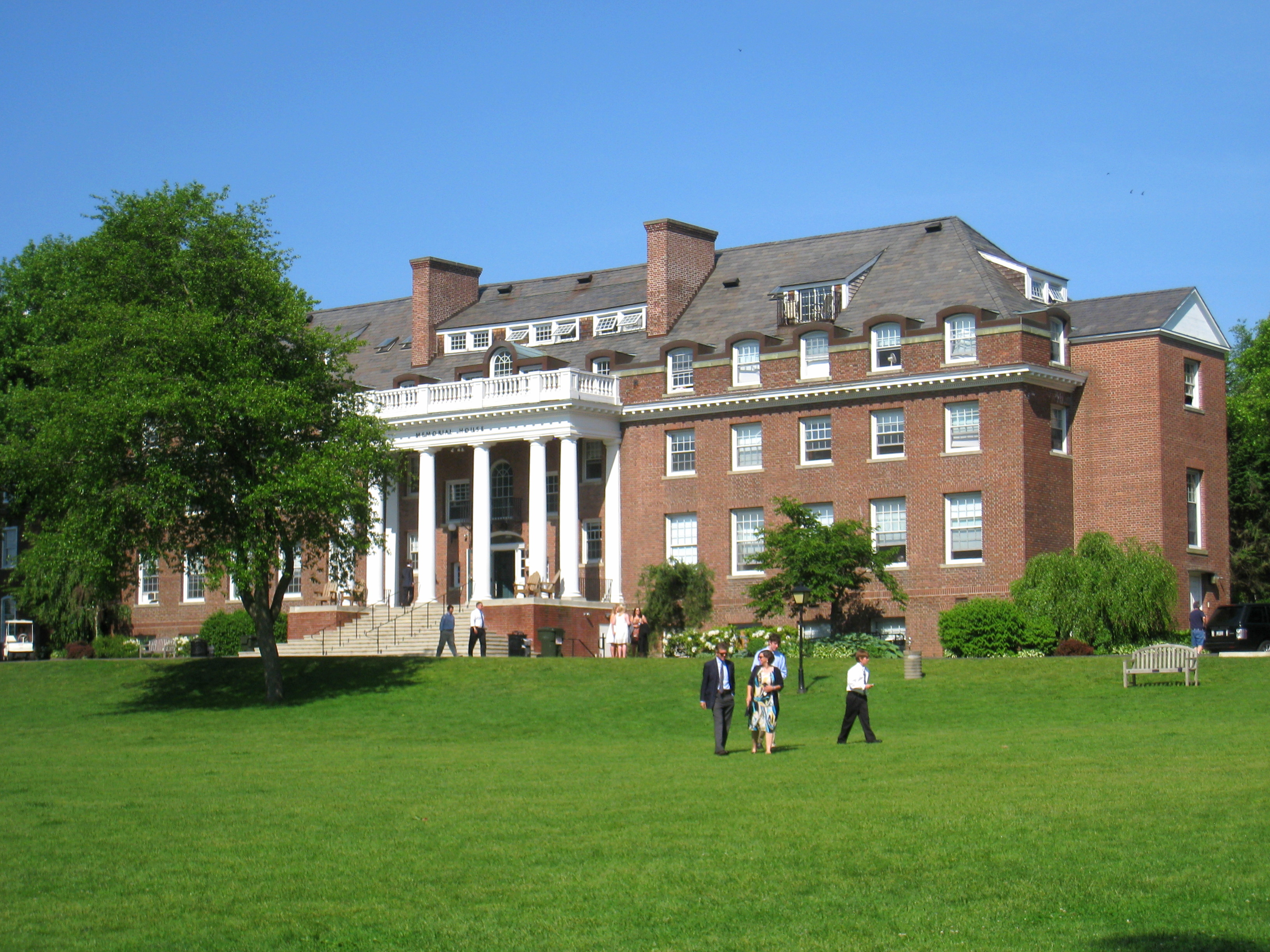 Memorial House (dorm) - Choate Rosemary Hall, Wallingford, Connecticut, USA. Built 1921.